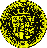 Bona Sforza’s seal